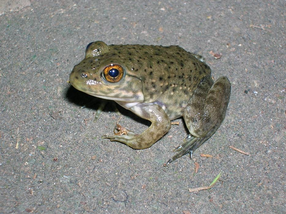 Side view of a juvenile Bullfrog, Rana catesbeiana. Notice the small, grey, oval-shaped area on top of the head. This is the parietal eye.